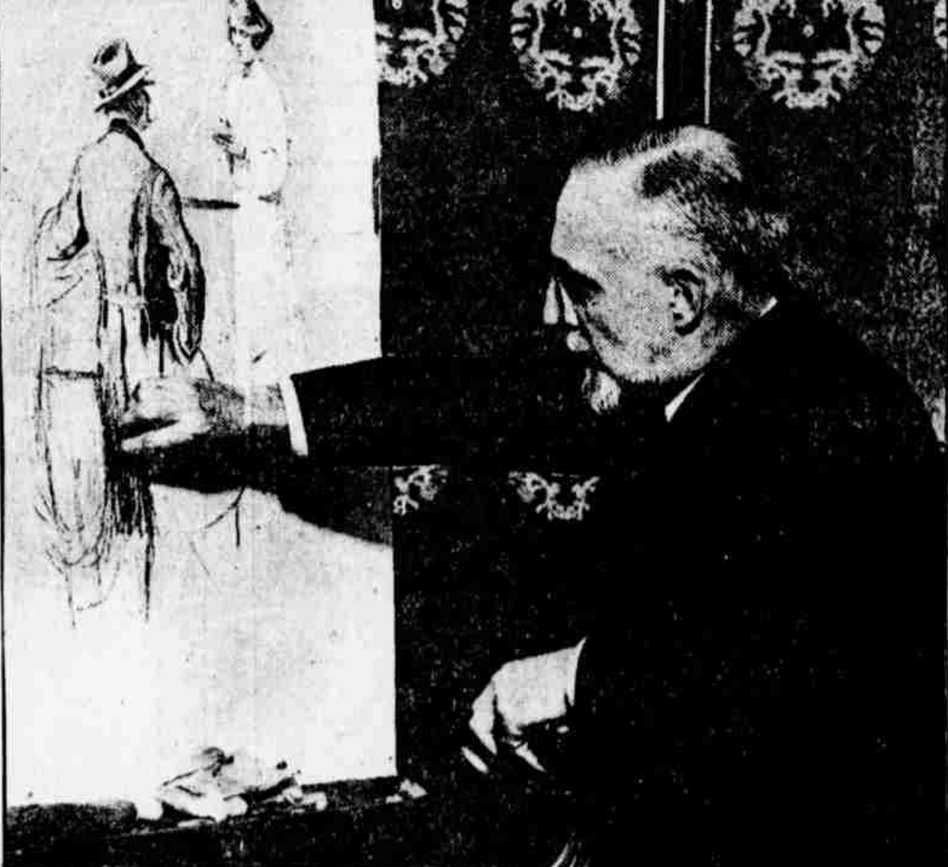 A portrait of author, illustrator and artist George Fort Gibbs (1870-1942)